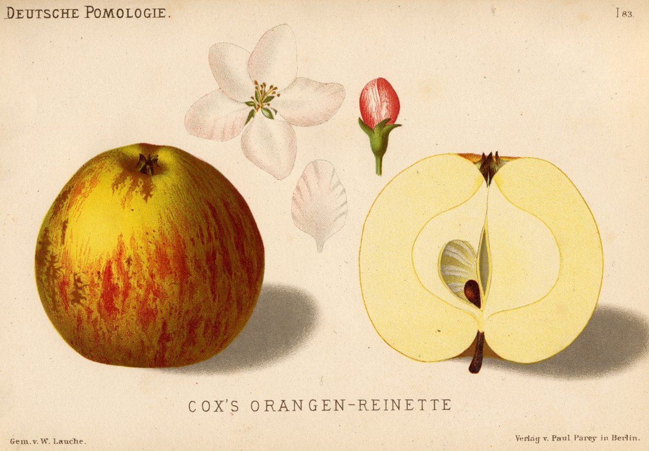 Illustration 83 from Deutsche Pomologie - Aepfel Apple cultivar shown: Cox's Orangen-Reinette